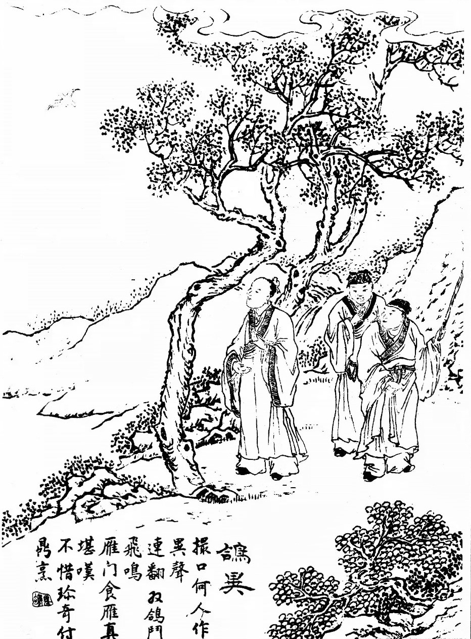 19th-century illustration of a scene from the short story "A Strange Matter Concerning Pigeons" collected in Strange Tales from a Chinese Studio (1740).